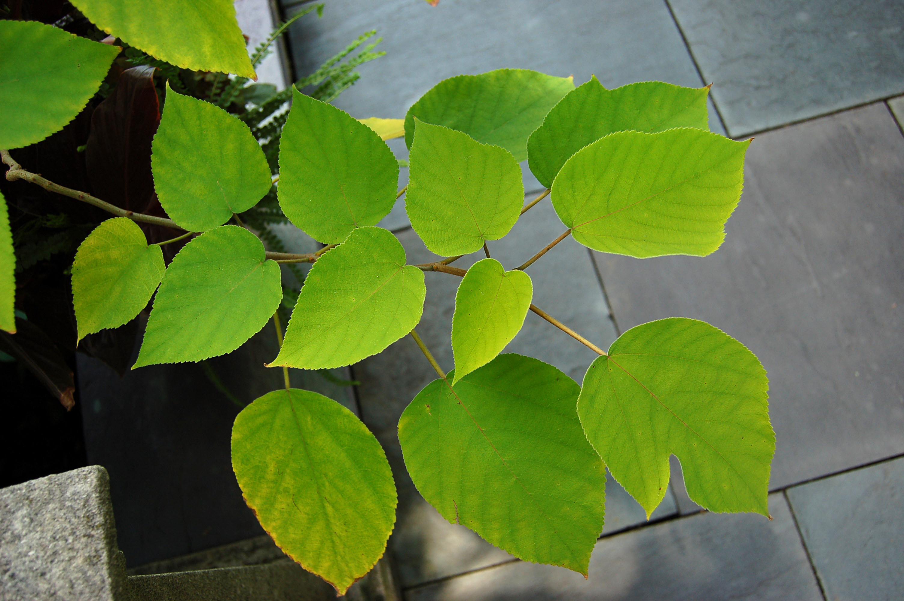 A picture the leaves of the Broussonetia papyrifera en plant. Photo taken at the Chanticleer Garden where it was identified.